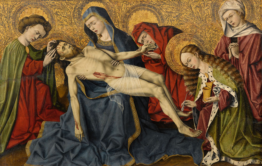 Pietà de Tarascon, originally in Château de Tarascon, now in Musée de Cluny. See also [1]